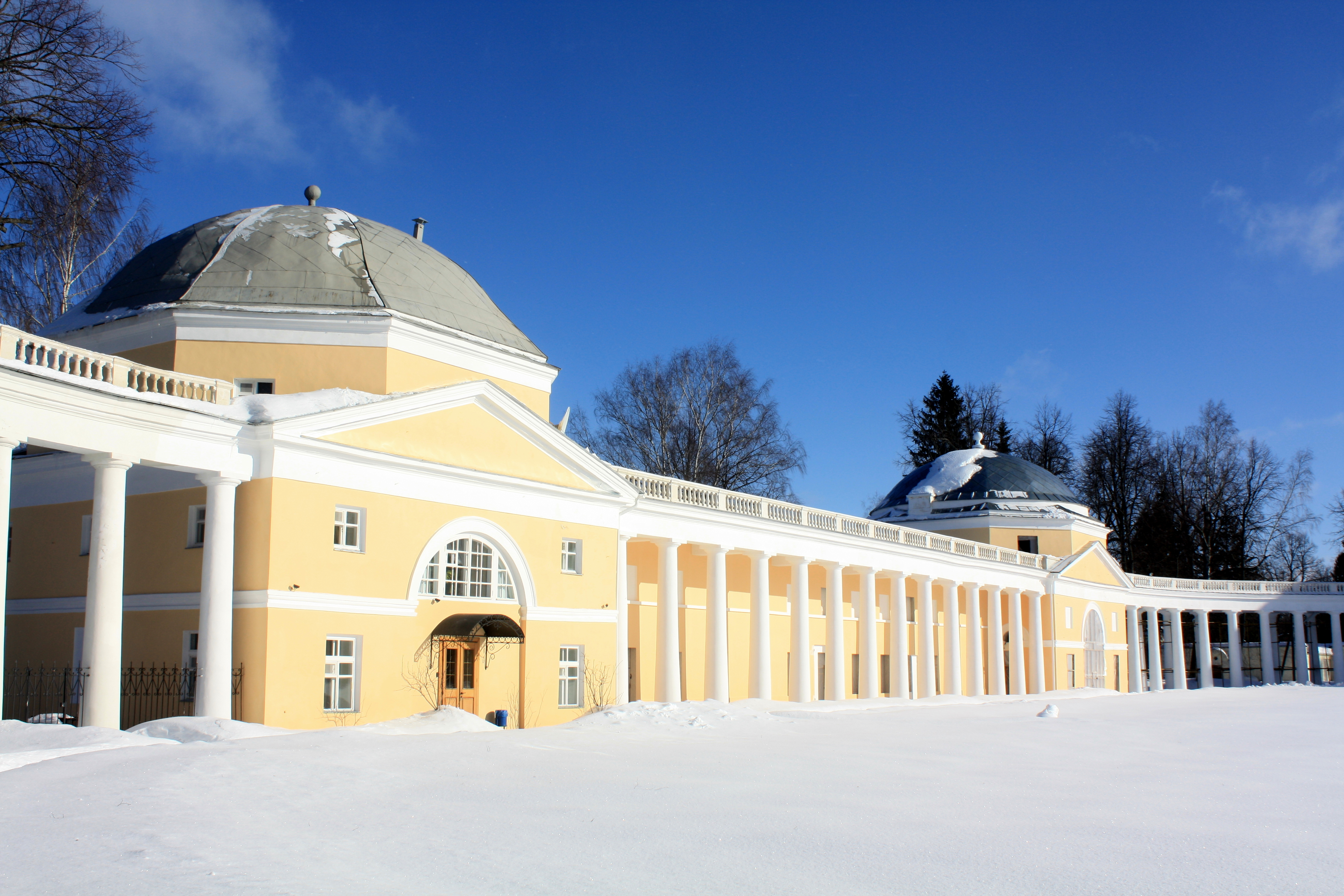 Part of the colonnade of the manor house, Znamenskoye-Rayok